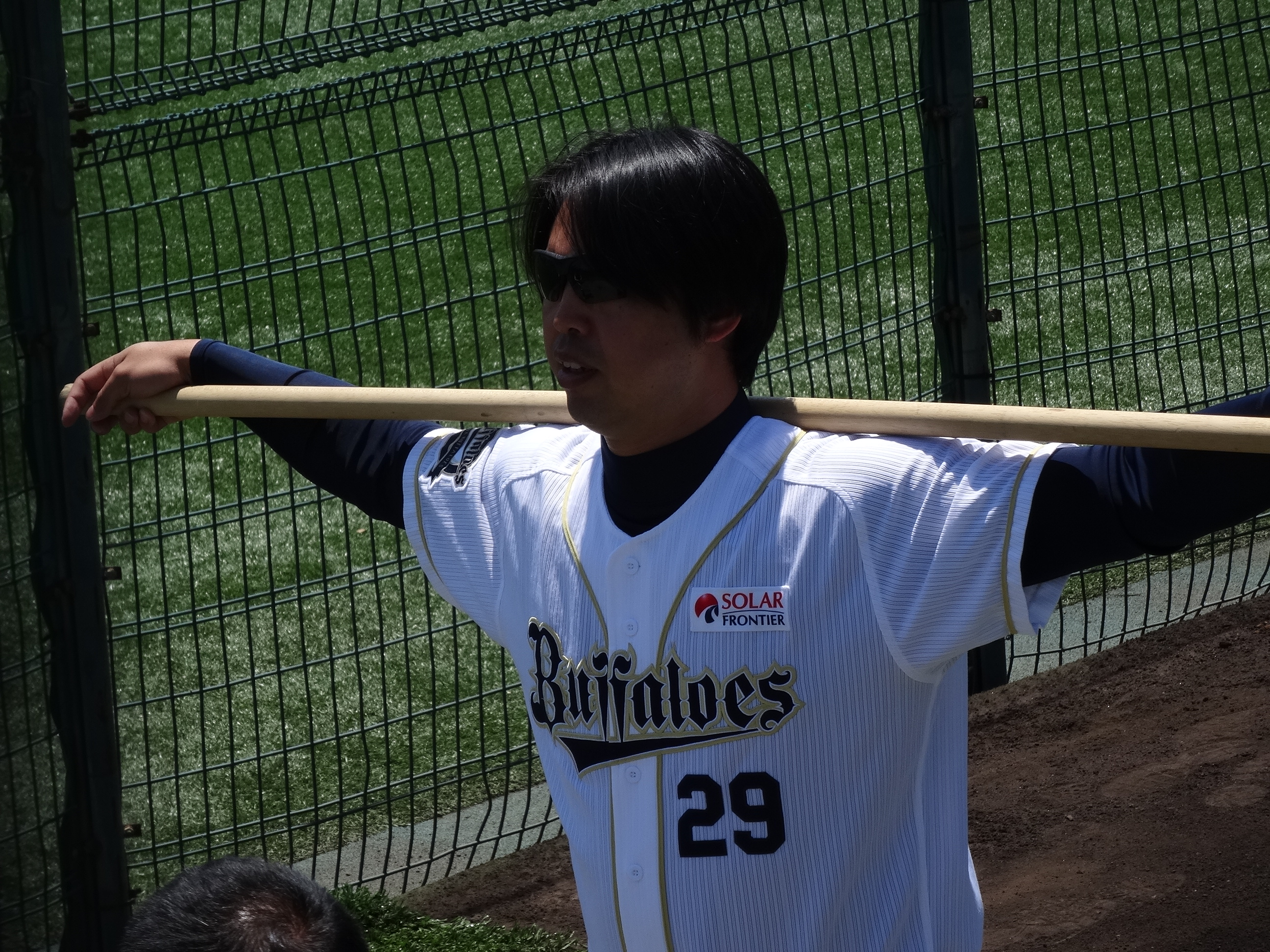 Kei Igawa, pitcher of the Orix Buffaloes, at Kobe Sports Park Sub Baseball Ground.